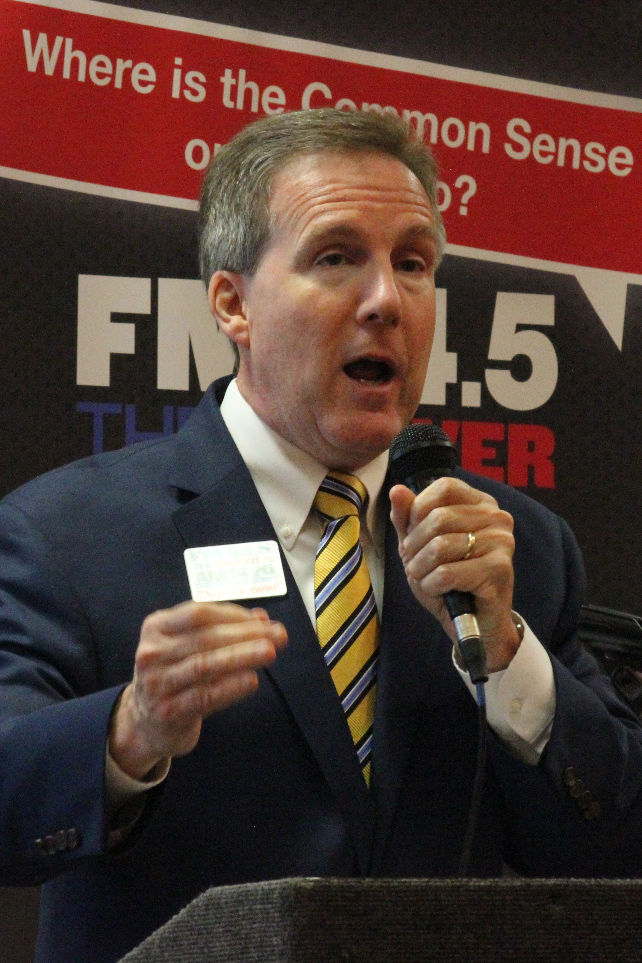 Chip Maxwell speaks at an event in Omaha, Neb.